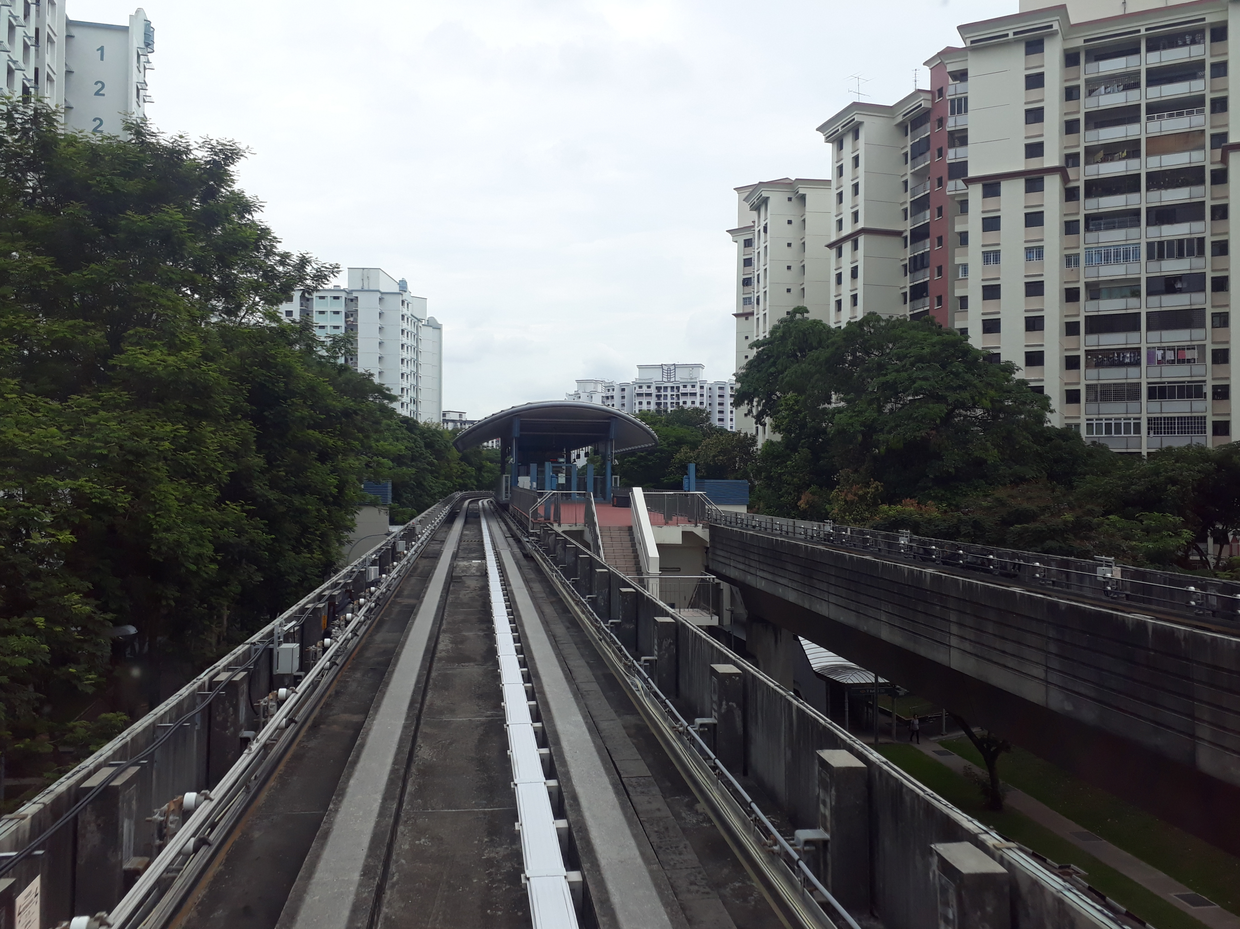 Bakau station viewed from an LRT train.